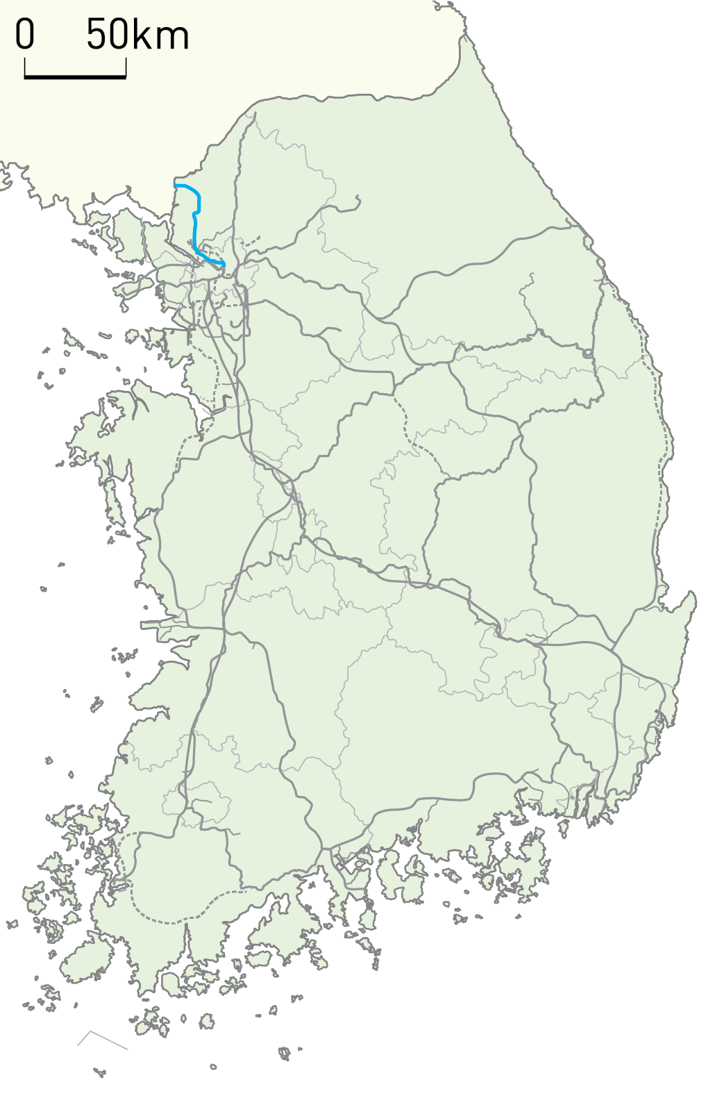 Korail Gyeongui Line Routemap